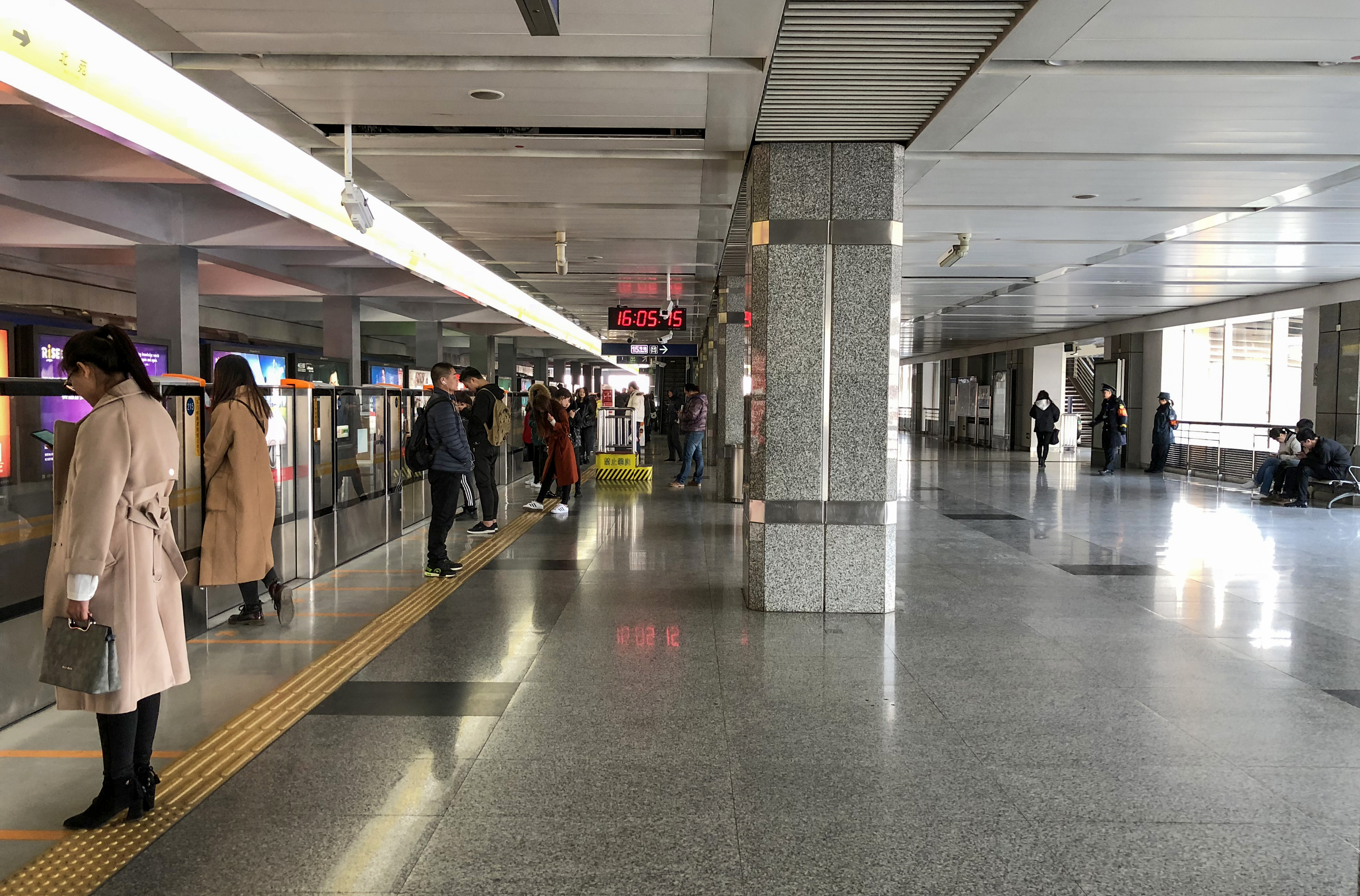 Bathing in more sunlight...